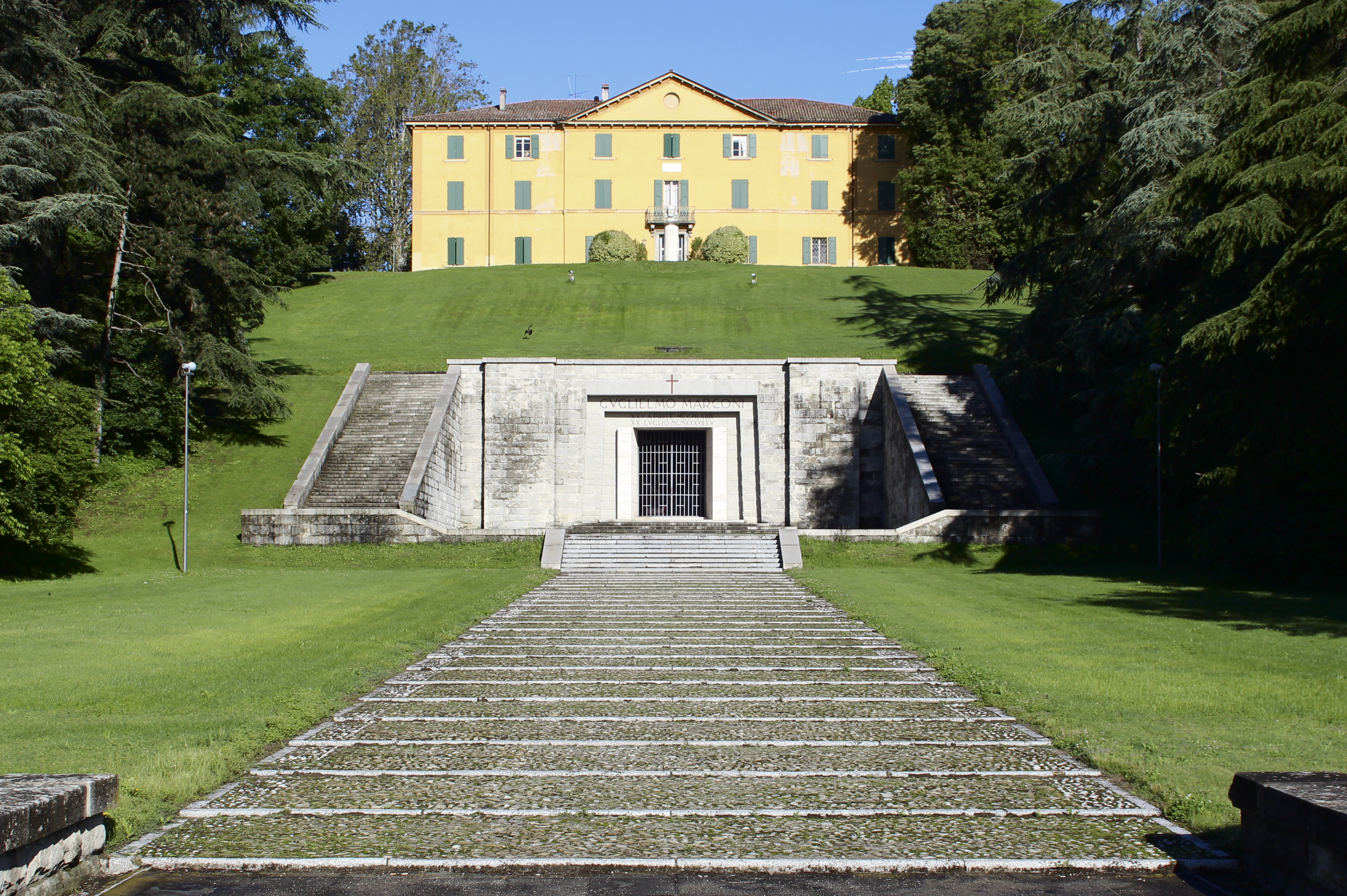 Villa Griffone, Pontecchio Marconi, Borgonuovo-Pontecchio, village of Sasso Marconi, metropolitan city of Bologna, Emilia-Romagna, Italy